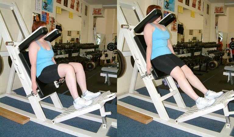 Thanks go to the model, Emily.